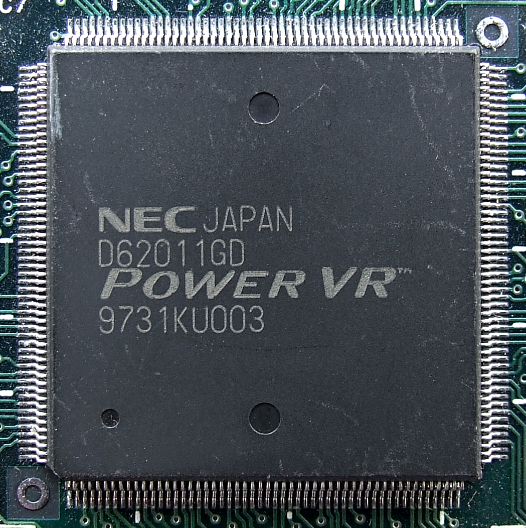 PowerVR PCX2 (manufactured by NEC as the D62011GD) graphics processing unit. This is the third and final release of the PowerVR Series1 family of GPUs.